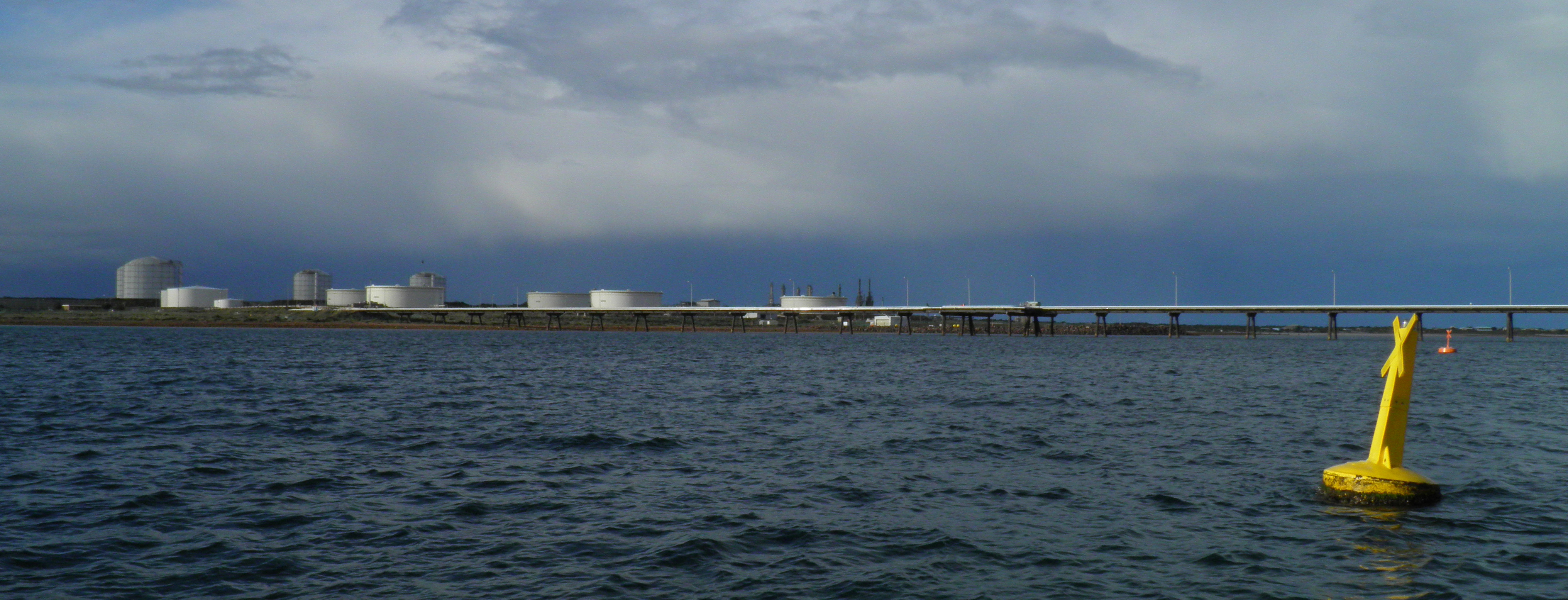 Port Bonython's gas-loading jetty is located adjacent to Santos Ltd's Port Bonython gas fractionation plant. The buoy in the foreground marks the boundary of the exclusion zone in place around the jetty.